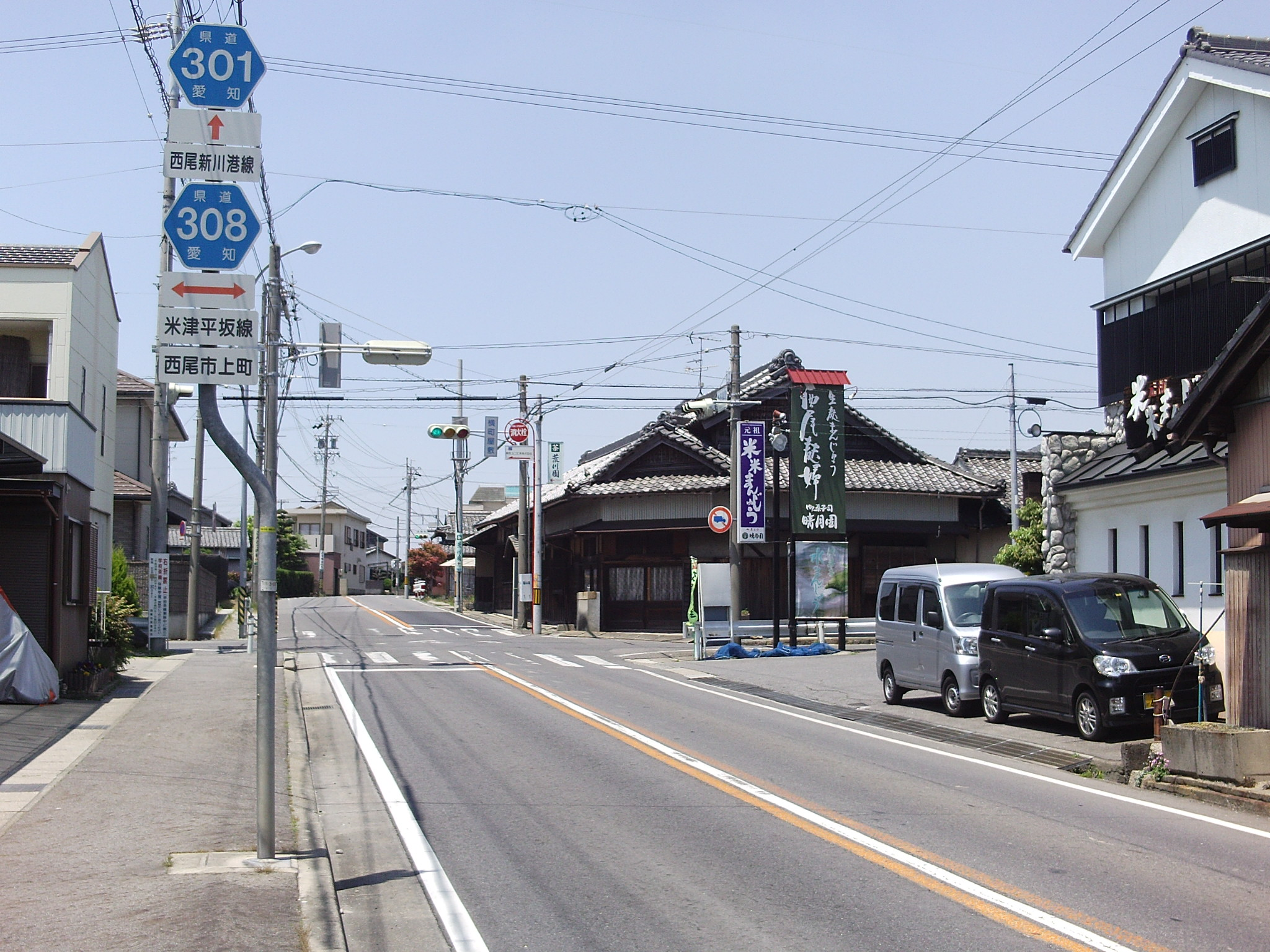 Aichi prefectural road No.301 in Kamimachi, Nishio, Aichi.